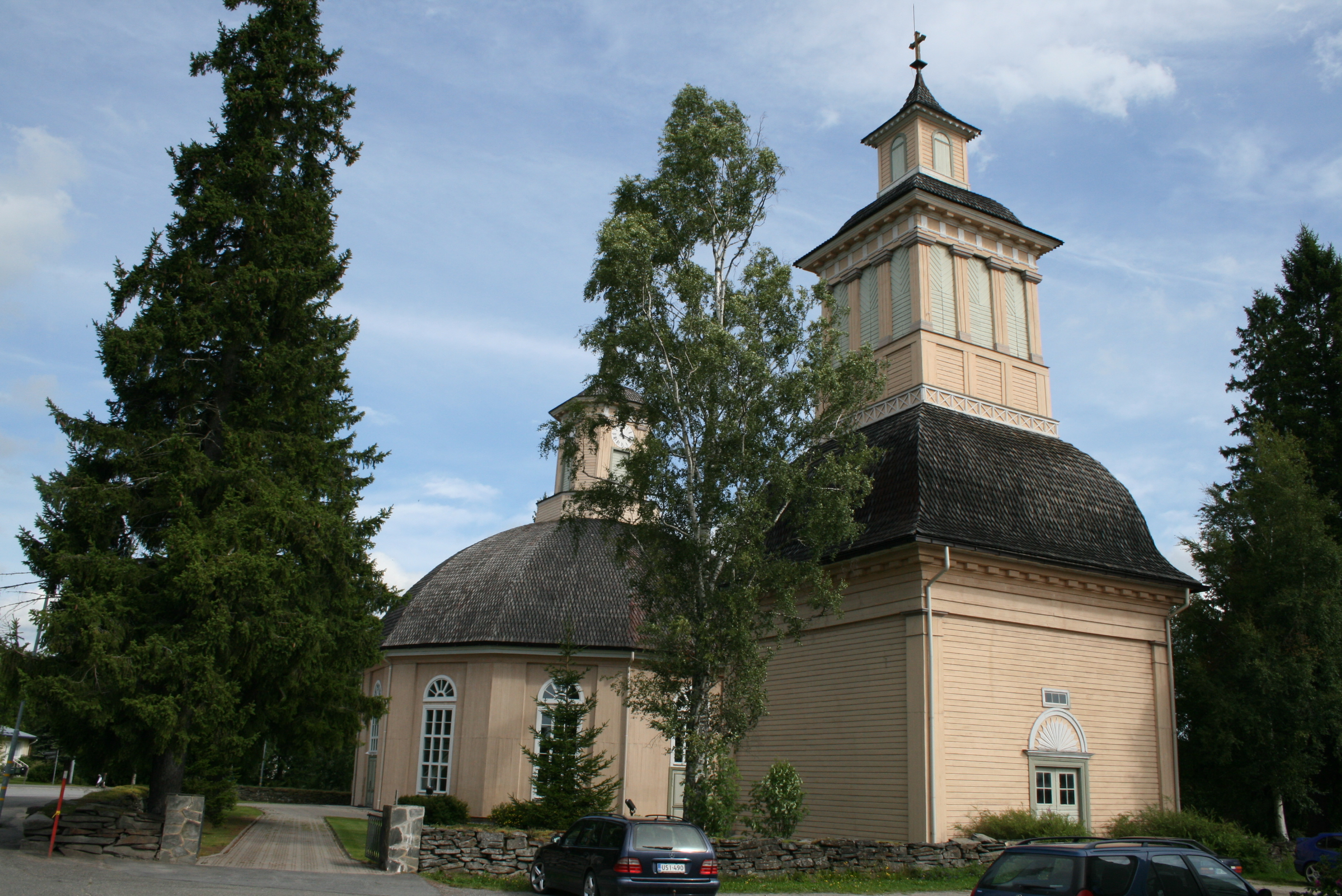 Vimpeli church, built in 1807.